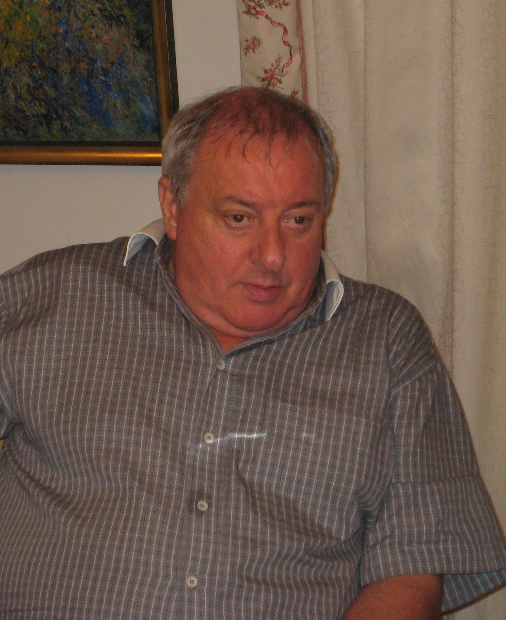 Vladimir Fokin